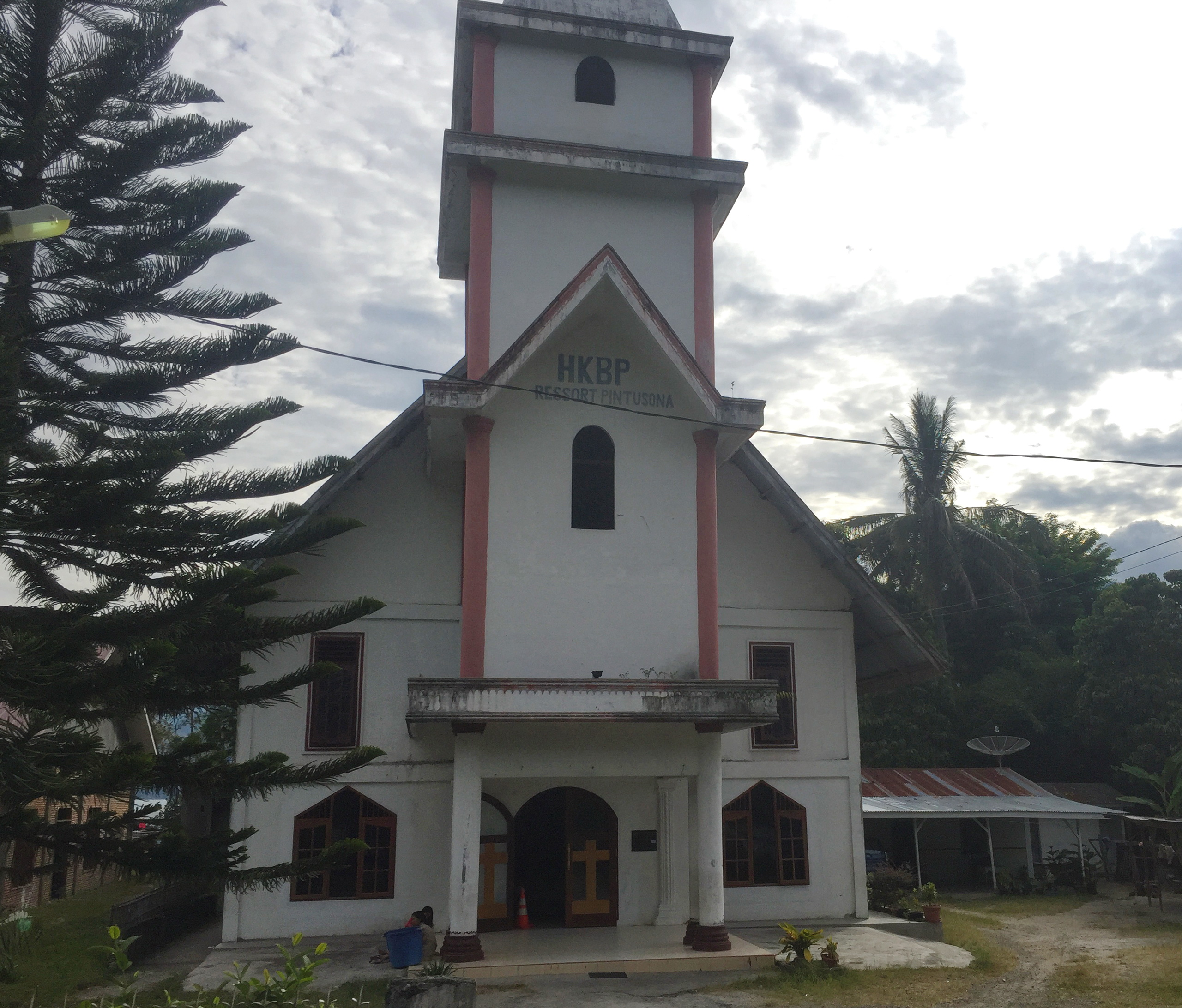 HKBP Pintusona, Church in Pintusona, Pangururan, Samosir